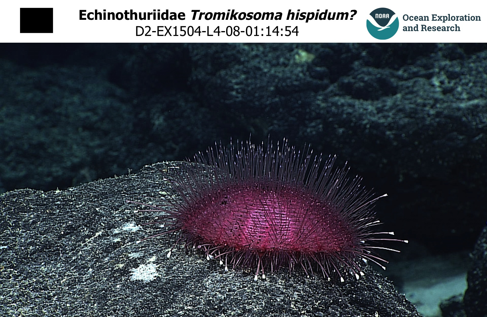 A deep-sea sea urchin Tromikosoma cf hispidum observed in the abyss by the NOAA Okeanos Explorer mission "2017 American Samoa Expedition: Suesuega o le Moana o Amerika Samoa".